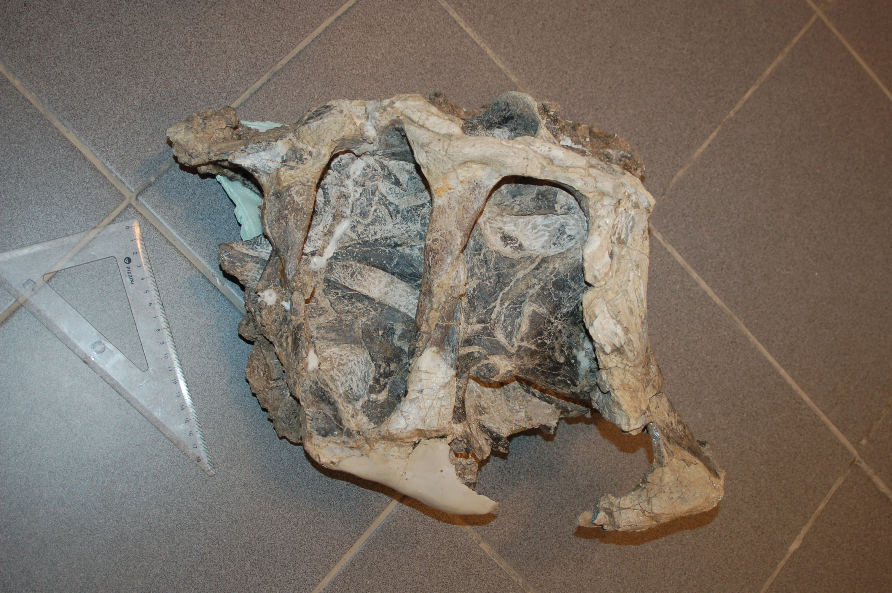 Morphobank media number: M109730 Taxonomic name: † Eoabelisaurus Specimen: † Eoabelisaurus (MPEF/PV:3990) Specimen notes: holotype Side represented: left side Media loaded by: Oliver Rauhut Bibliographic Reference: Pol, D. and Rauhut, O. W. M. 2012. A Middle Jurassic abelisaurid from Patagonia and the early diversification of theropod dinosaurs. Proceedings of the Royal Society B: Biological Sciences.